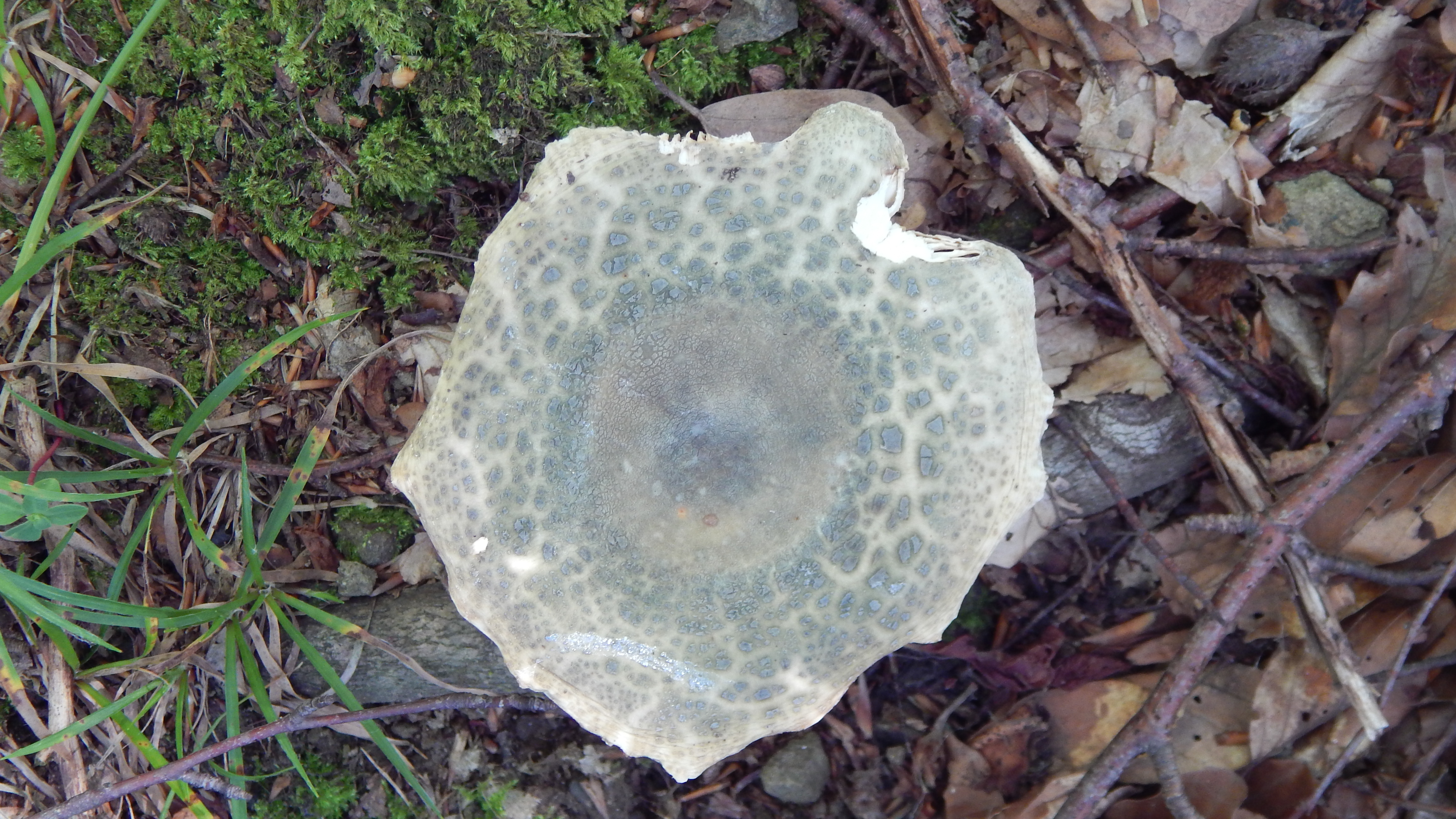 Russula virescens